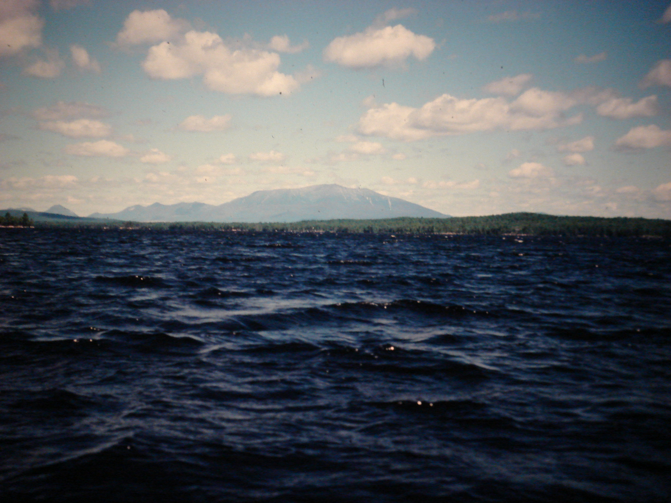 North Twin Lake, looking north